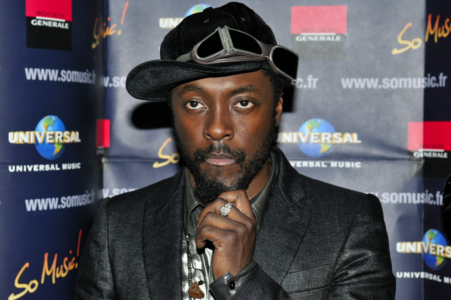 will.i.am, member of music group Black Eyed Peas. Les Black Eyed Peas en concert privé au VIP Room Paris.